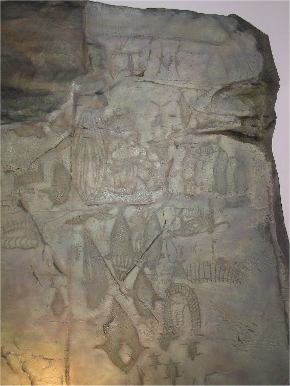 Petroglyphs.